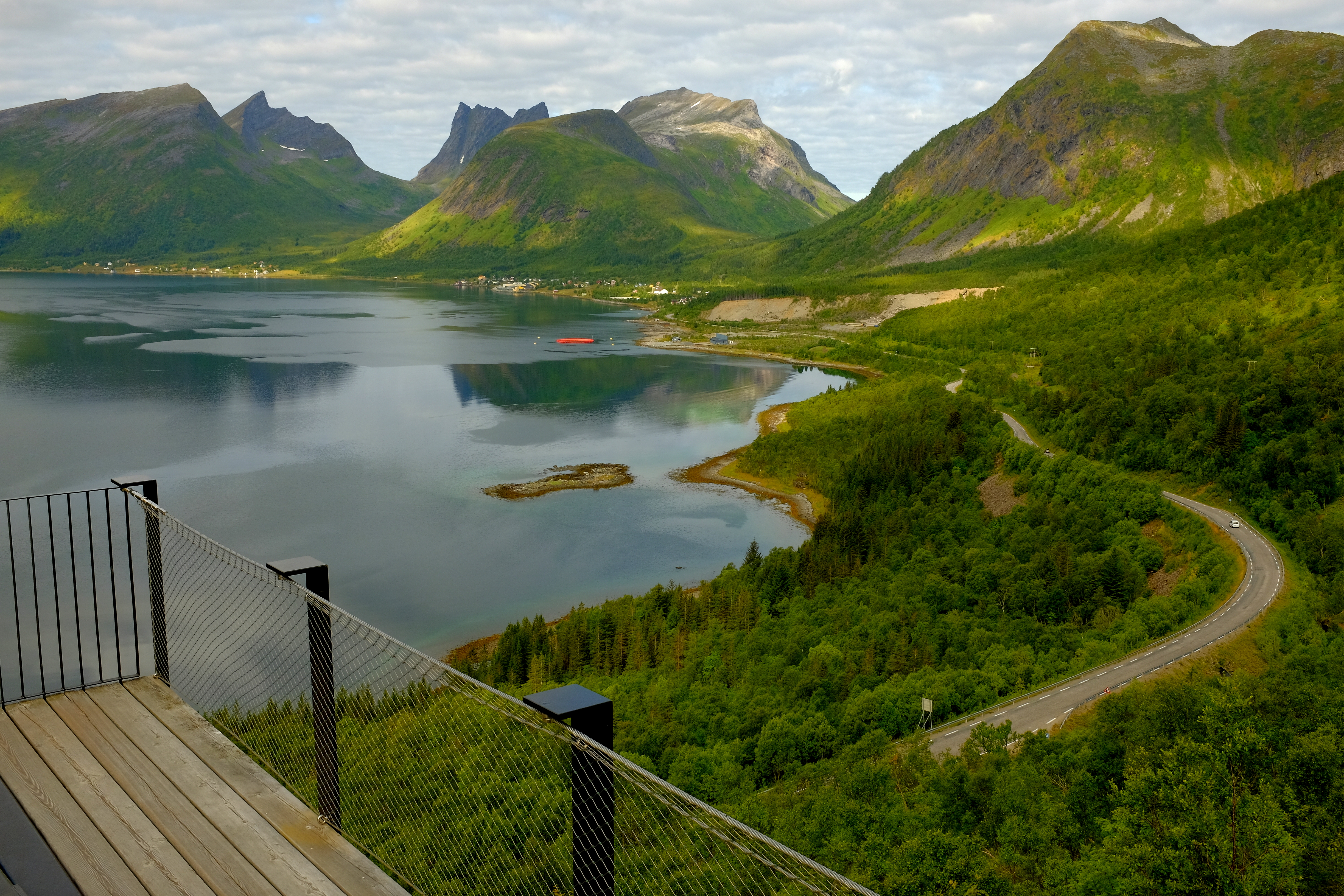 Bergsbotn is a fjord arm, one built in Berg municipality on Senja in Troms. The village is located about five kilometers east of the municipality of Skaland, along the northern side of the fjord.